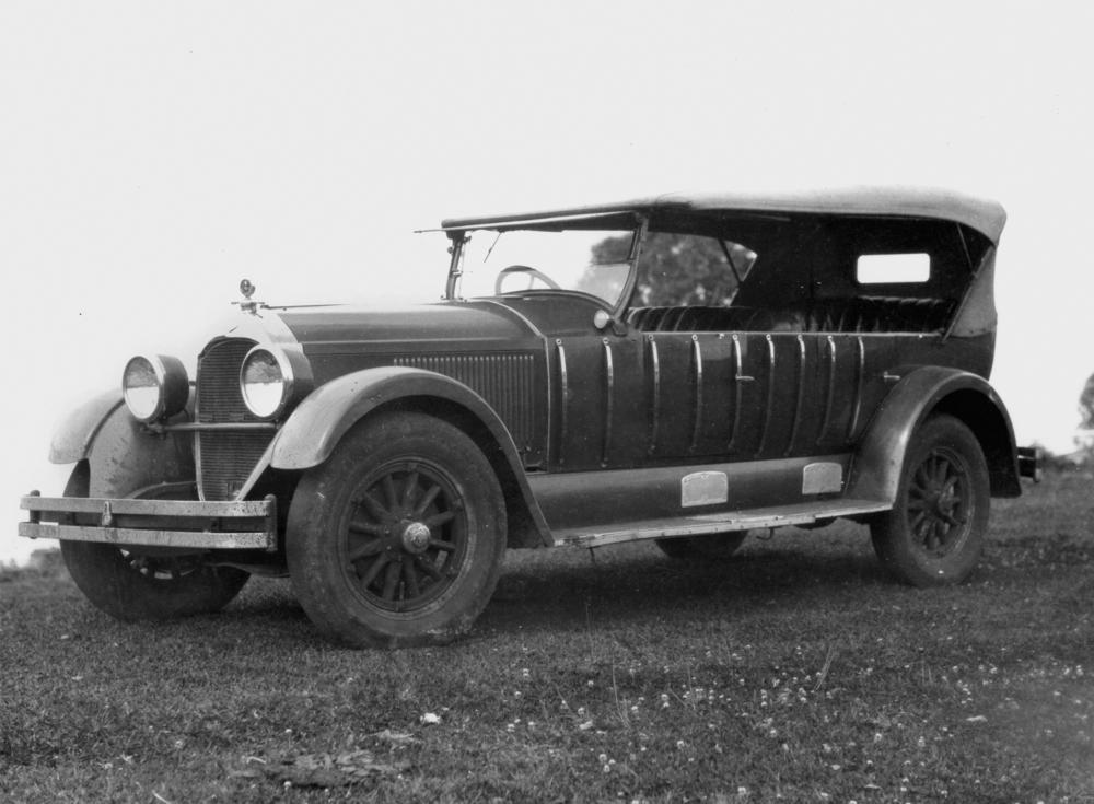 Paige 1926 model tourer with hood up. This 1926 model Paige was possibly fully imported. In 1928, Paige became Graham- Paige. Note the metal strips on this car to prevent luggage damaging paintwork while being used as a service car.(Description from KES & RGD). The Garage contains approximately 500 images of vehicles used in Queensland Australia, covering the period from 1900 . The images are linked to an index of the State Library of Queensland's extensive collection of automotive repair manuals.